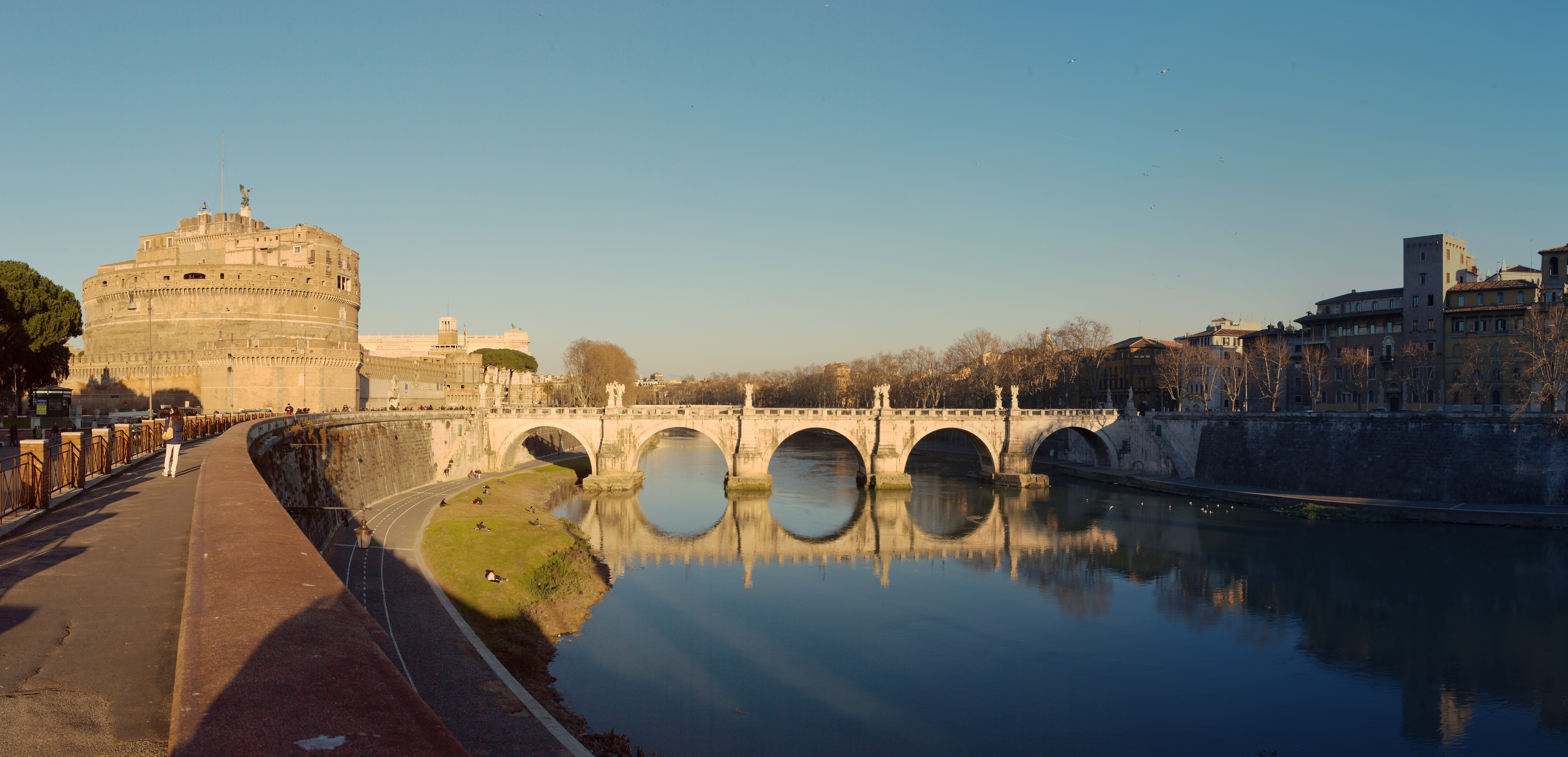 Sant Angelo bridge. Panoramic view